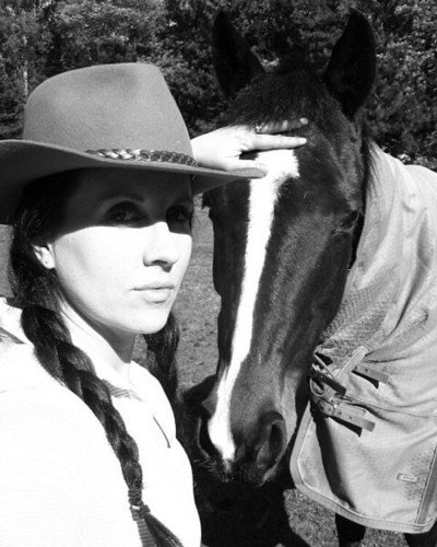 Geire Kami